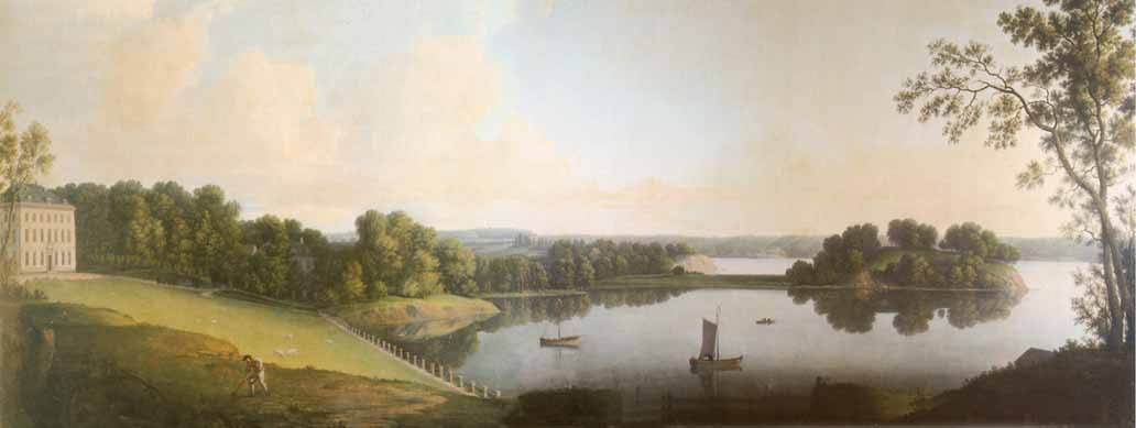 An overdoor in Moltkes Palæ (Moltke Mansion) in Copenhagen, Denmark